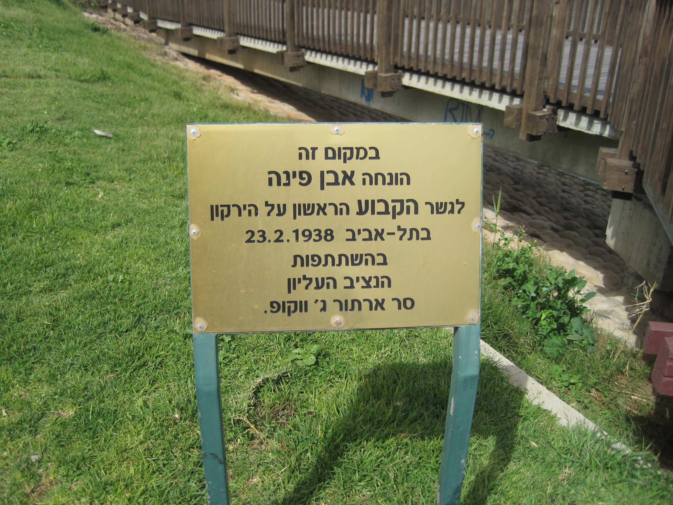 Ben Eliezer bridge